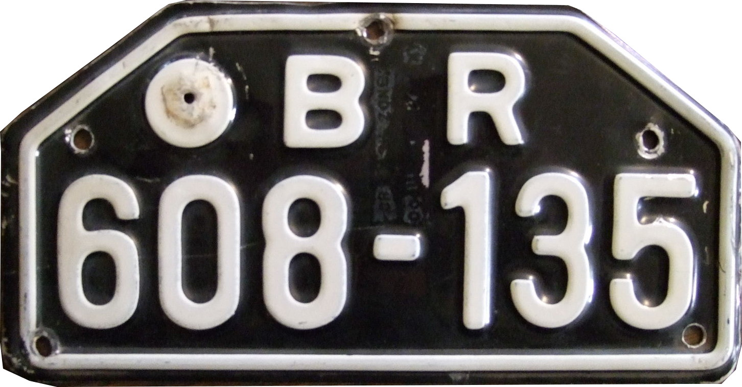 License plate for motorcycles of occupied Germany British Zone 1948-56